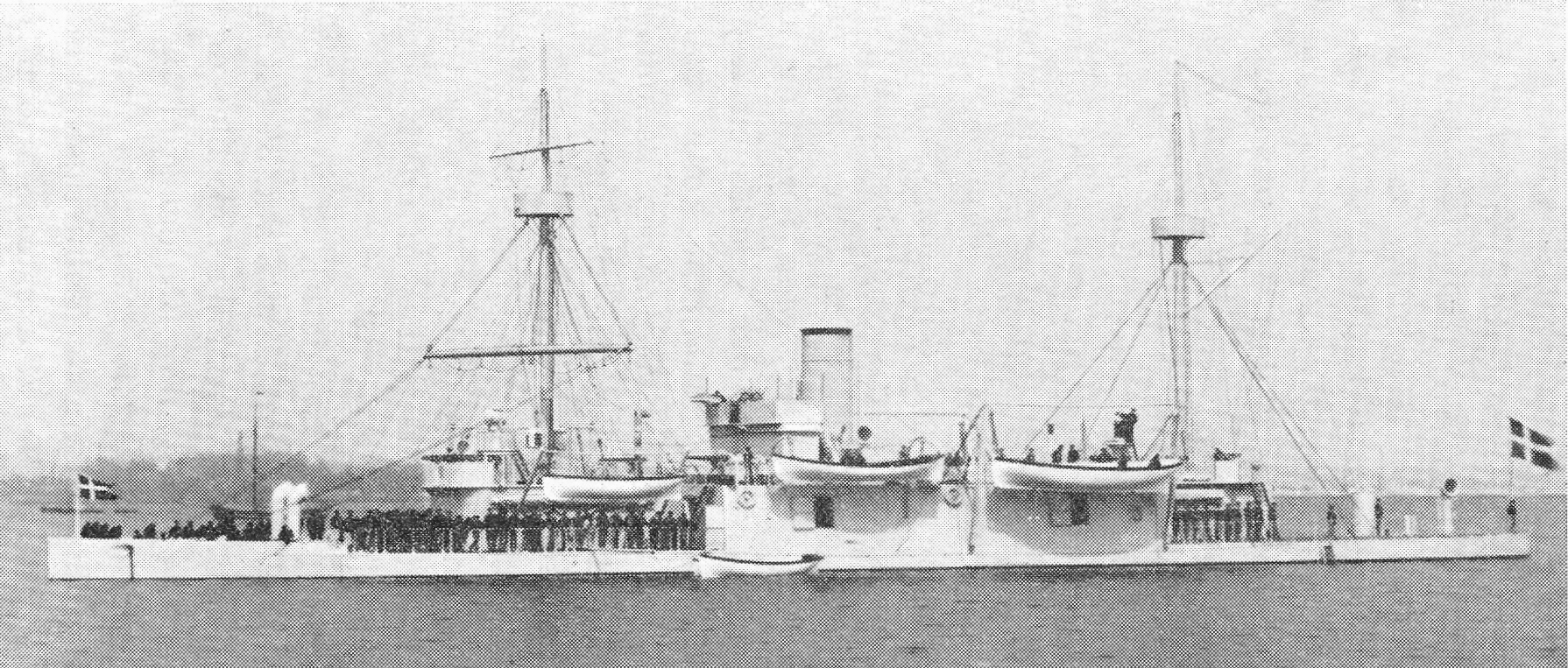 Danish Ironclad Odin, launched in 1872, and serving 1874-1912.